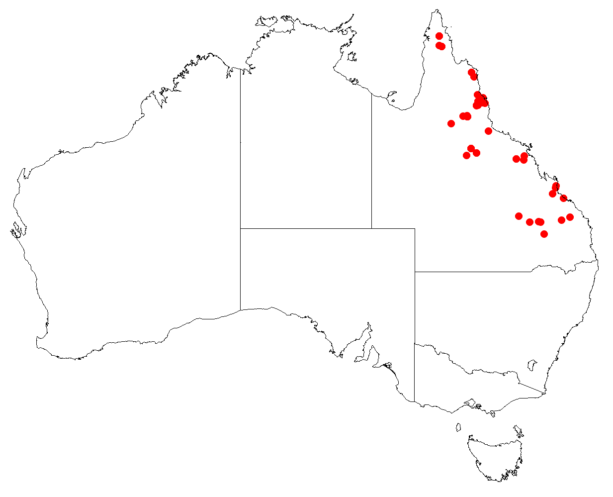 Australian distribution of Amyema biniflora based on download from Australasian Virtual Herbarium May 9, 2018